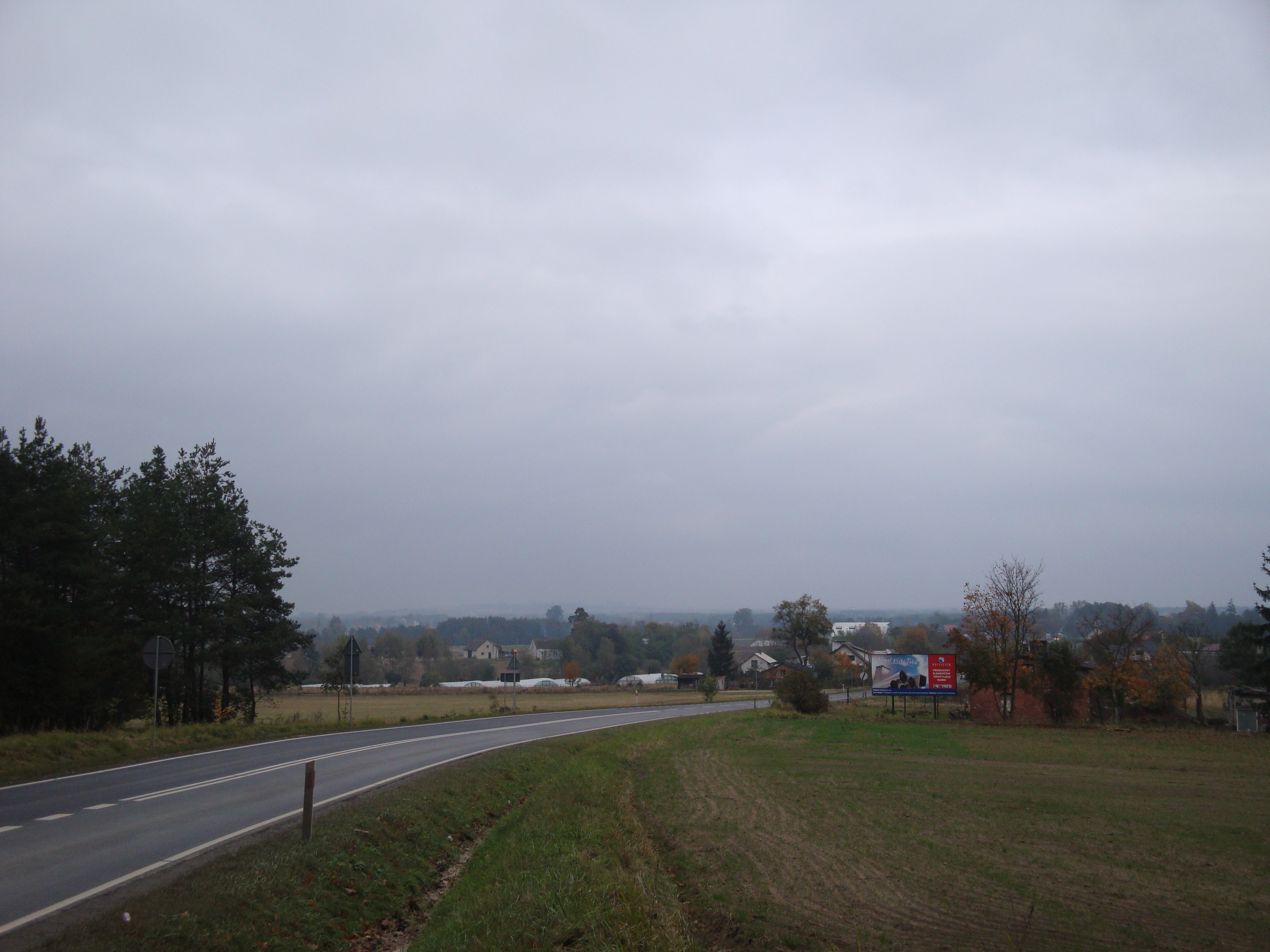 View part of Ruda - Google Maps - Google Earth